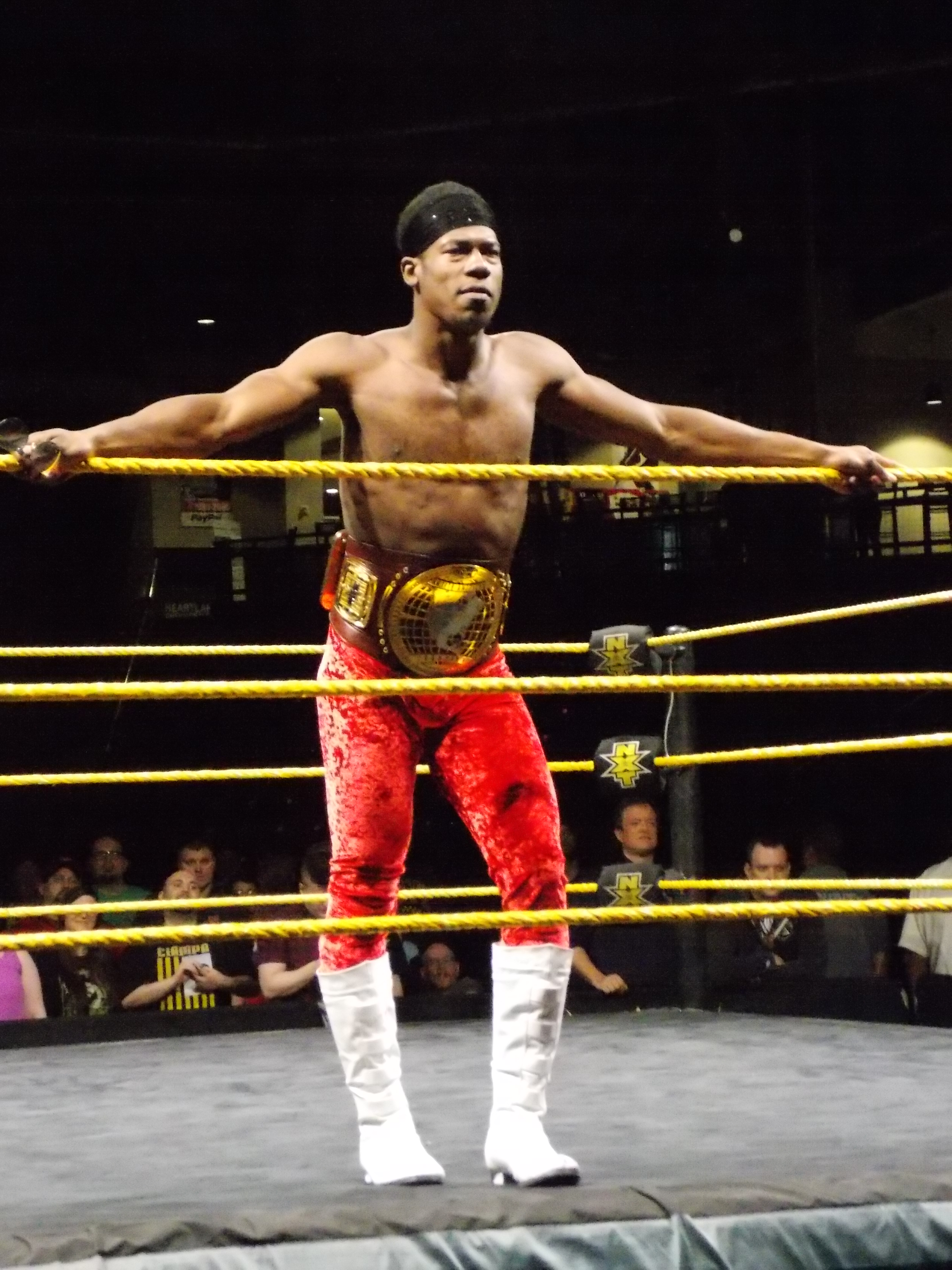 Velveteen Dream at an NXT Live Event in Omaha, Nebraska, USA on Thursday, April 25, 2019